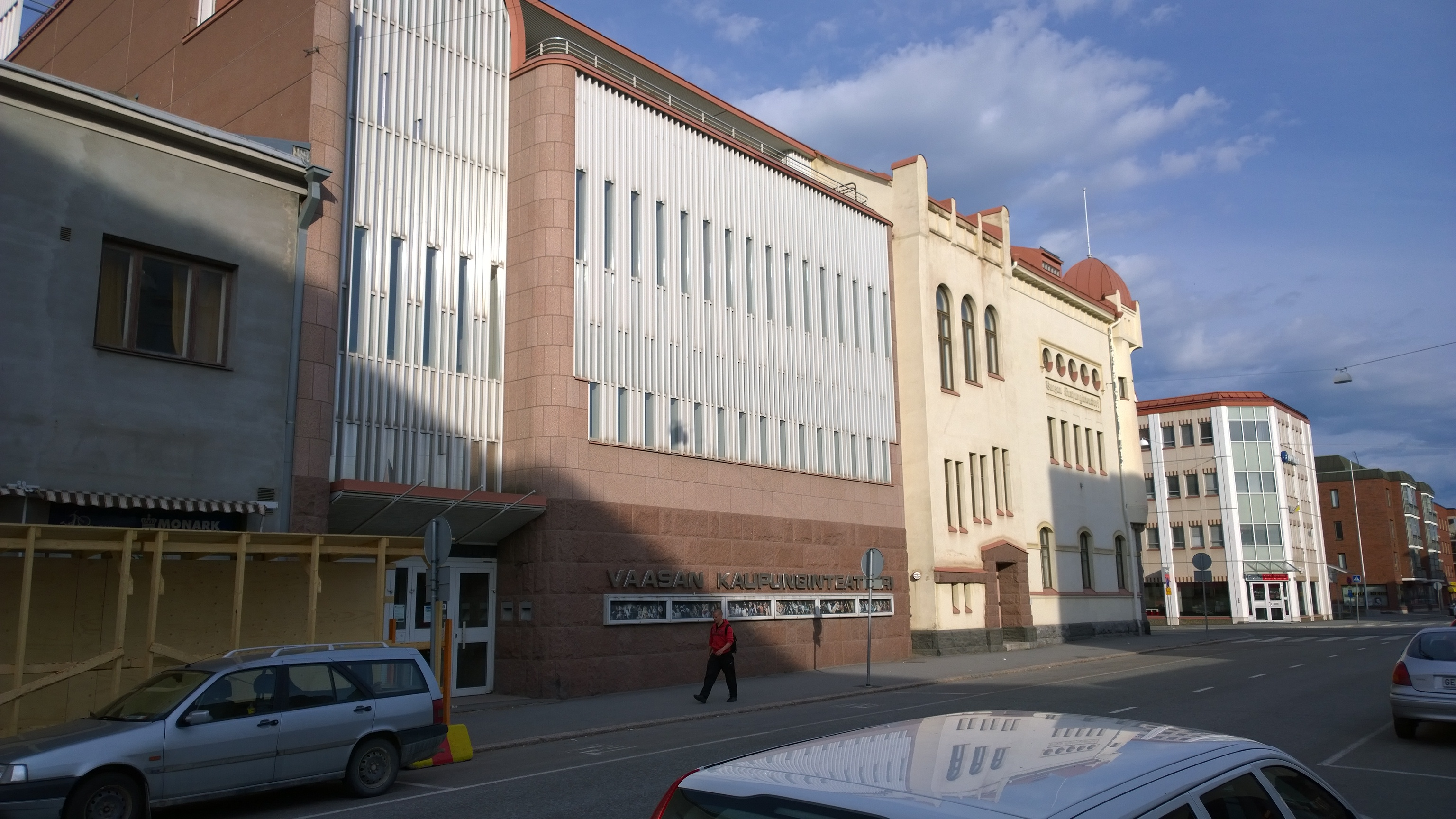 Finnish Theater of Vaasa